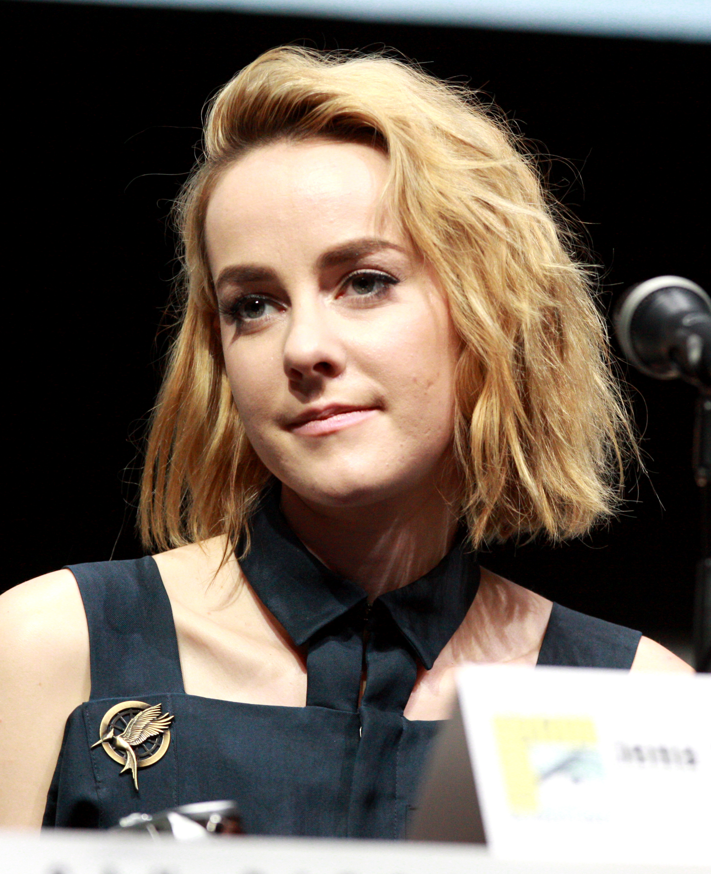 Jena Malone at the 2013 San Diego Comic Con International in San Diego, California.